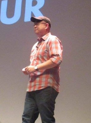 Peter Sohn at Annecy Festival of Animation